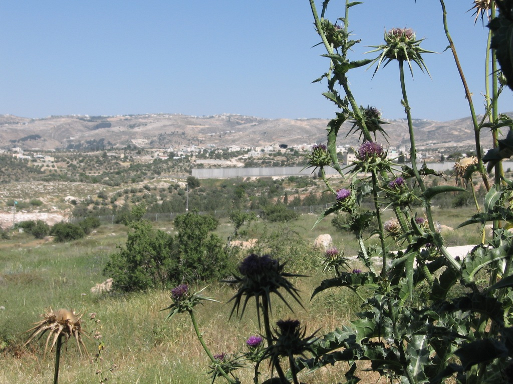 Arab villages as seen from Shekef